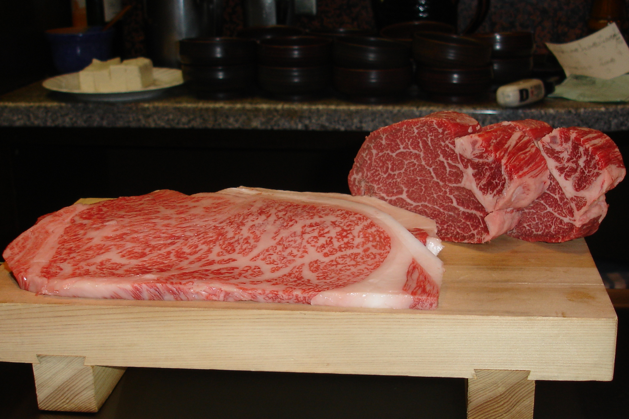 Kobe Beef in Japan. There are four filets pictured, the one in front is the highest grade of Kobe Beef.